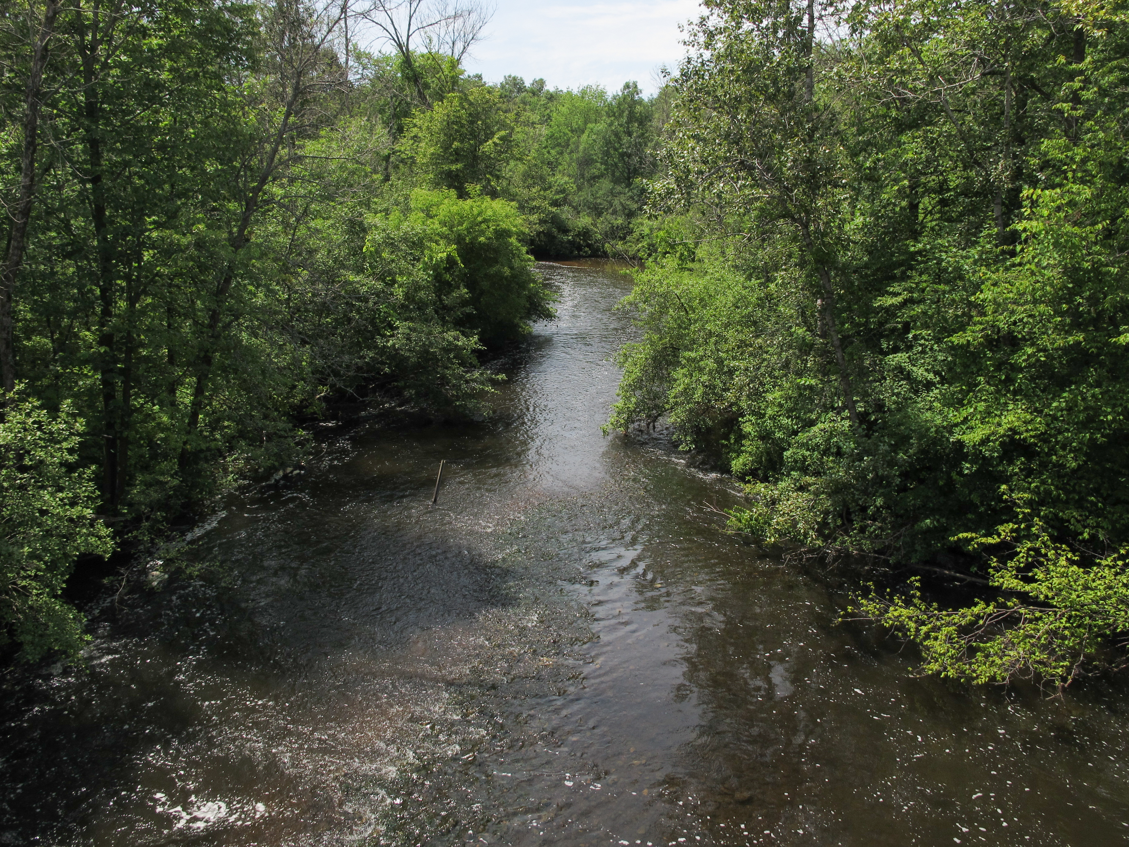 The Little Muskegon River as viewed downstream from a bridge on the White Pine Trail in Morley, Michigan.